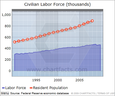 Labor force in Mecklenburg County, NC.